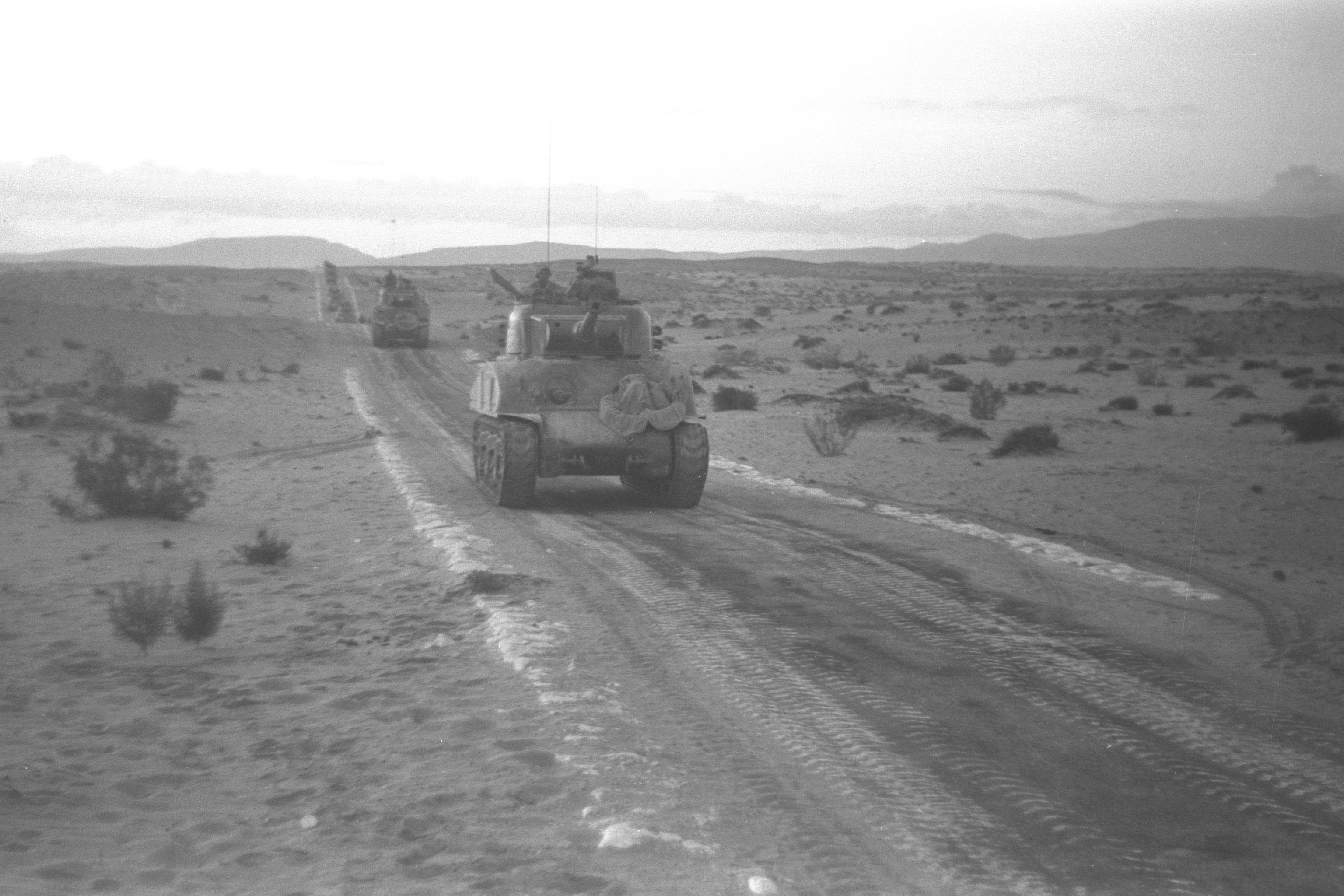 ARMOURED COLUMN ADVANCING FROM ABU AGEILA IN DIRECTION OF ZUEZ CANAL.